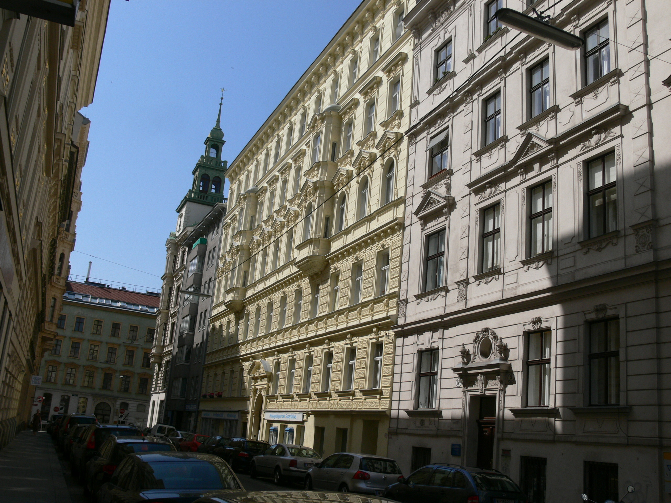 Vienna. Lange Gasse.